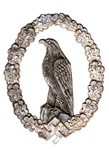 German Luftwaffe Retired Pilot's Badge 1936